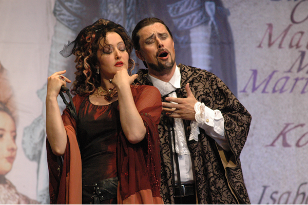 Elena Baramova - Donna Elvira - Solothurn - Switzerland